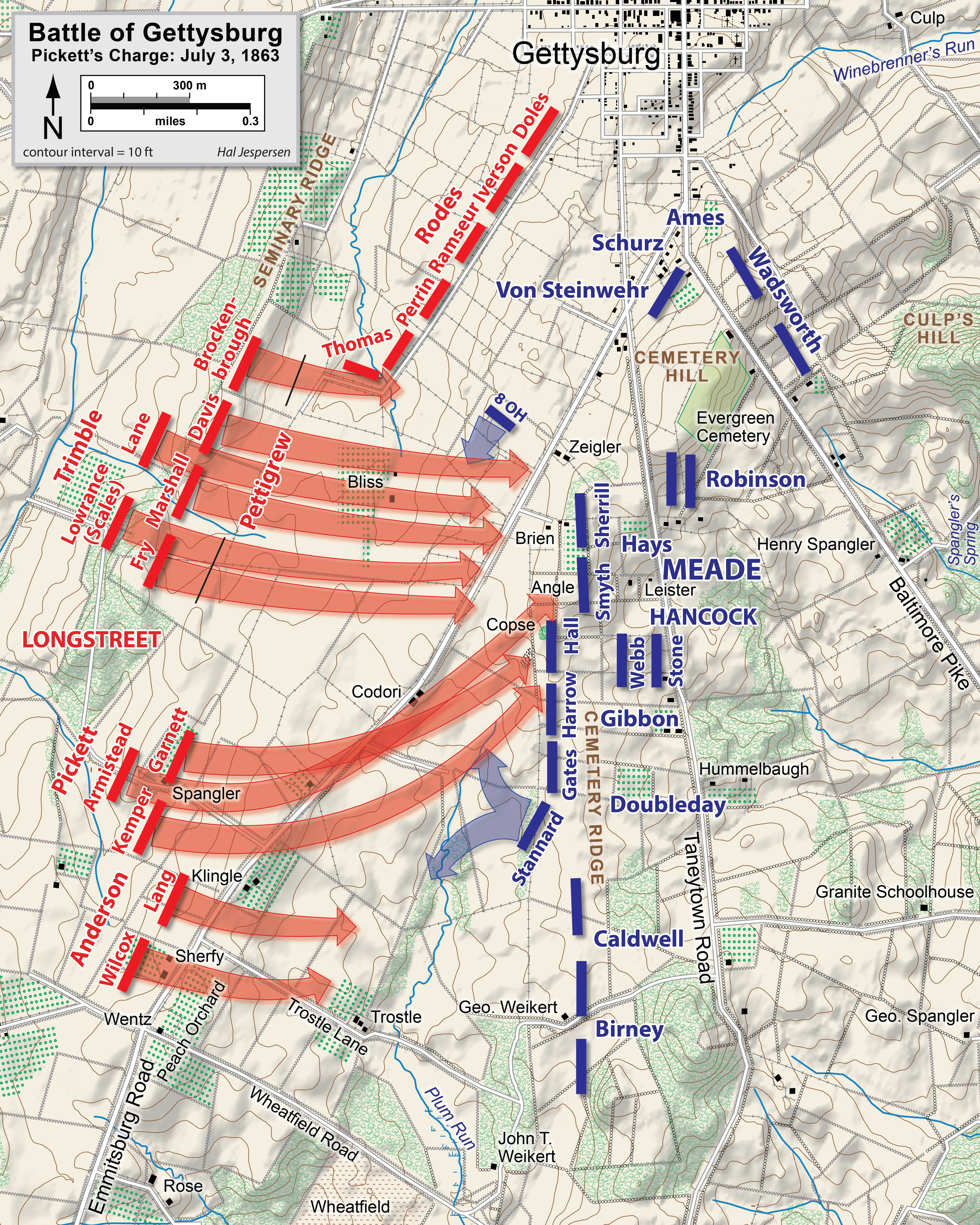 Map of Pickett's Charge of the American Civil War. Drawn in Adobe Illustrator CS5 by Hal Jespersen. Graphic source file is available at